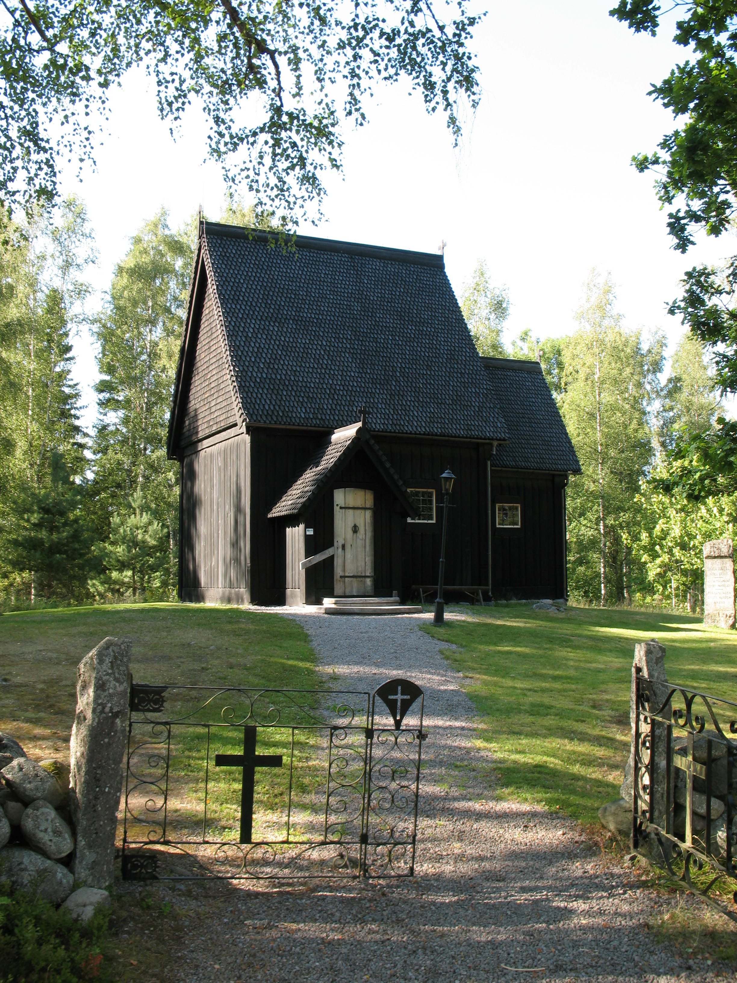 church